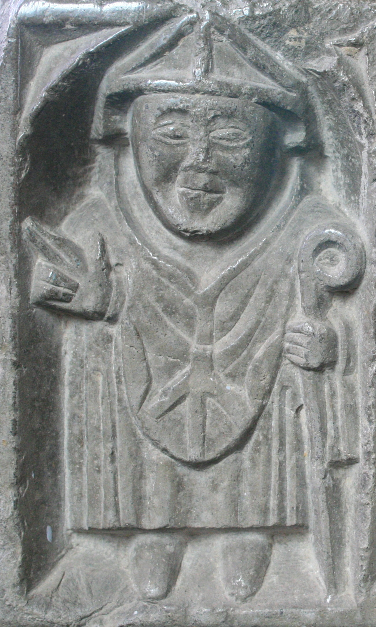 Clonard, County Meath, Ireland Detail of a baptismal font from the 15th or 16th century at the Church of St. Finian in Clonard. According to local tradition the figure represents St. Finian.